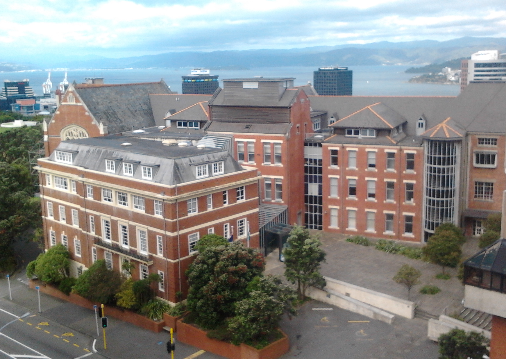 The Robert Stout (left) and Hunter (centre) buildings, Victoria University of Wellington.